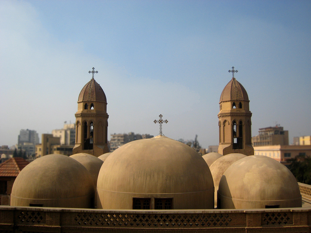 The renowned domes of St. Mark Church, the oldest of many Coptic Orthodox churches in Heliopolis, Cairo.